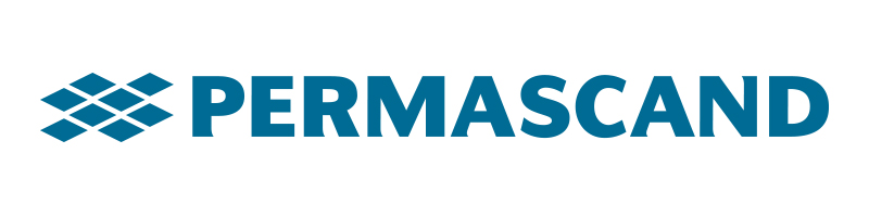 Permascand AB